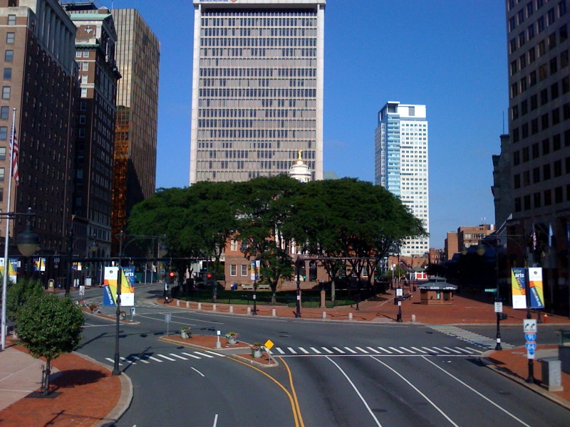 Looking at State House Square from Constitution Plaza in Downtown Hartford